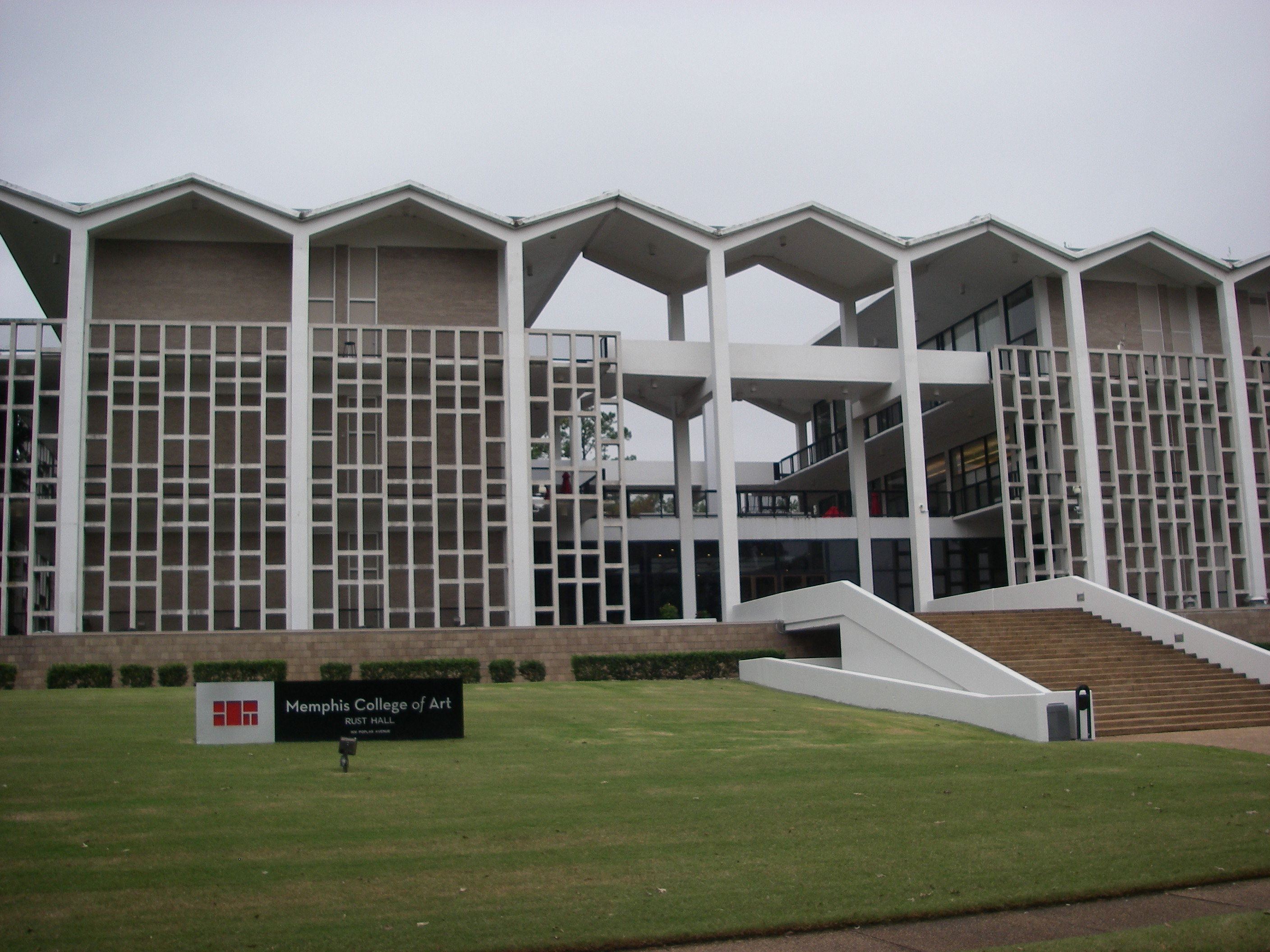 I personally took this photo.